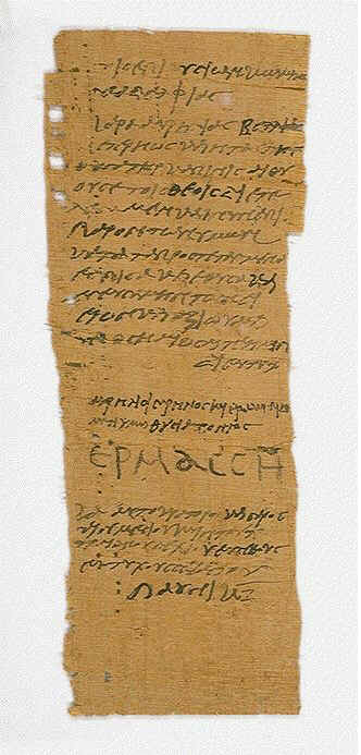 A libellus from the Decian persecution 250 AD. Possibly found at Fayoum, Egypt in 1893. Text reads: To those in charge of the sacrifices of the village Theadelphia, from Aurelia Bellias, daughter of Peteres, and her daughter, Kapinis. We have always been constant in sacrificing to the gods, and now too, in your presence, in accordance with the regulations, I have poured libations and sacrificed and tasted the offerings, and I ask you to certify this for us below. May you continue to prosper. Under the above text, written by another hand: We, Aurelius Serenus and Aurelius Hermas, saw you sacrificing. A third hand: I, Hermas, certify. First hand: The 1st year if the Emperor Caesar Gaius Messius Quintus Traianus Decius Pius Felix Augustus. (Based on description at